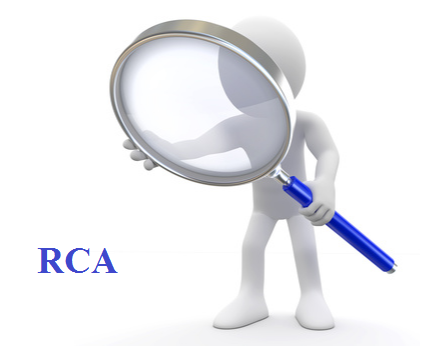 Визначення RCA